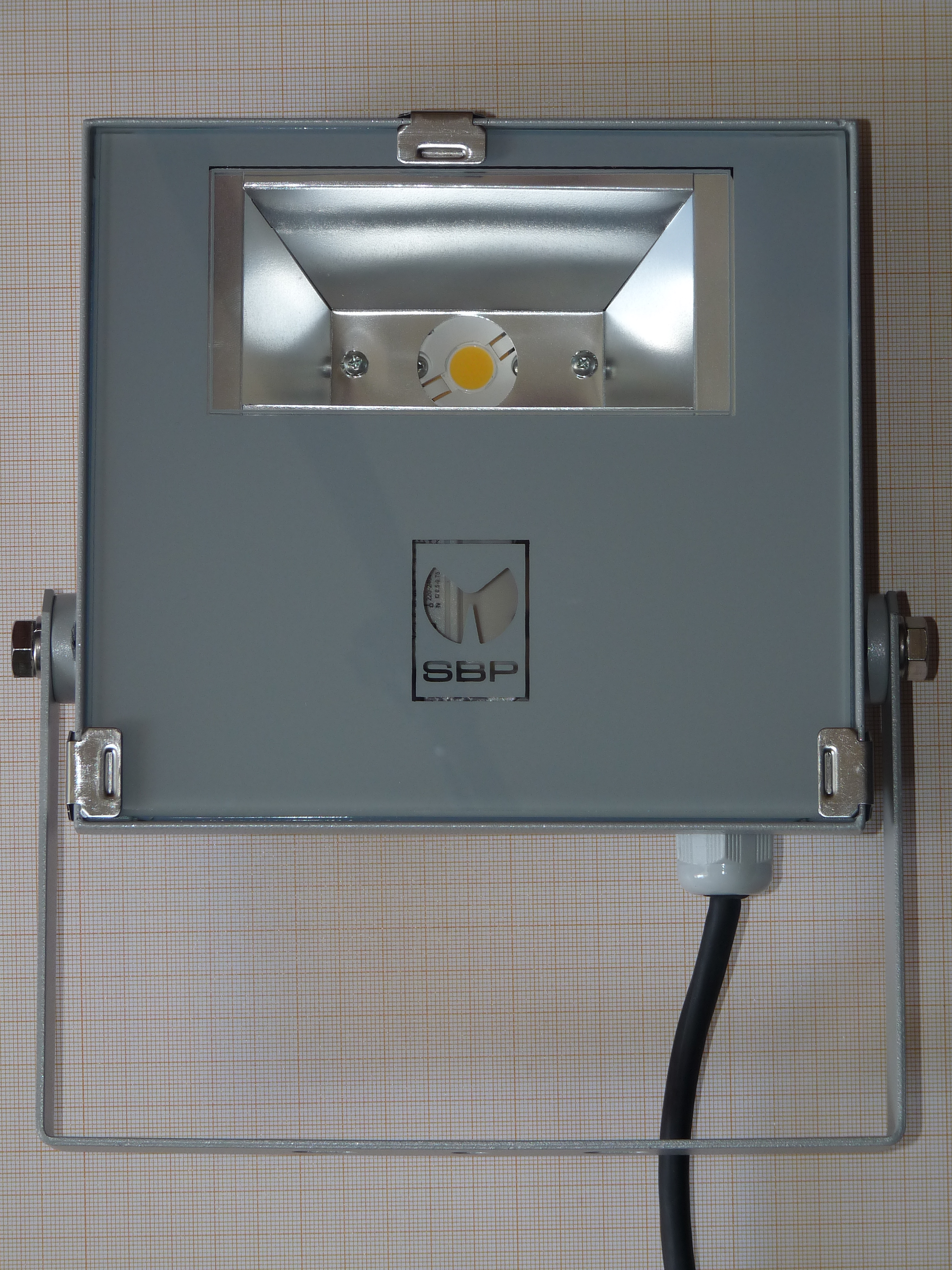 LED searchlight